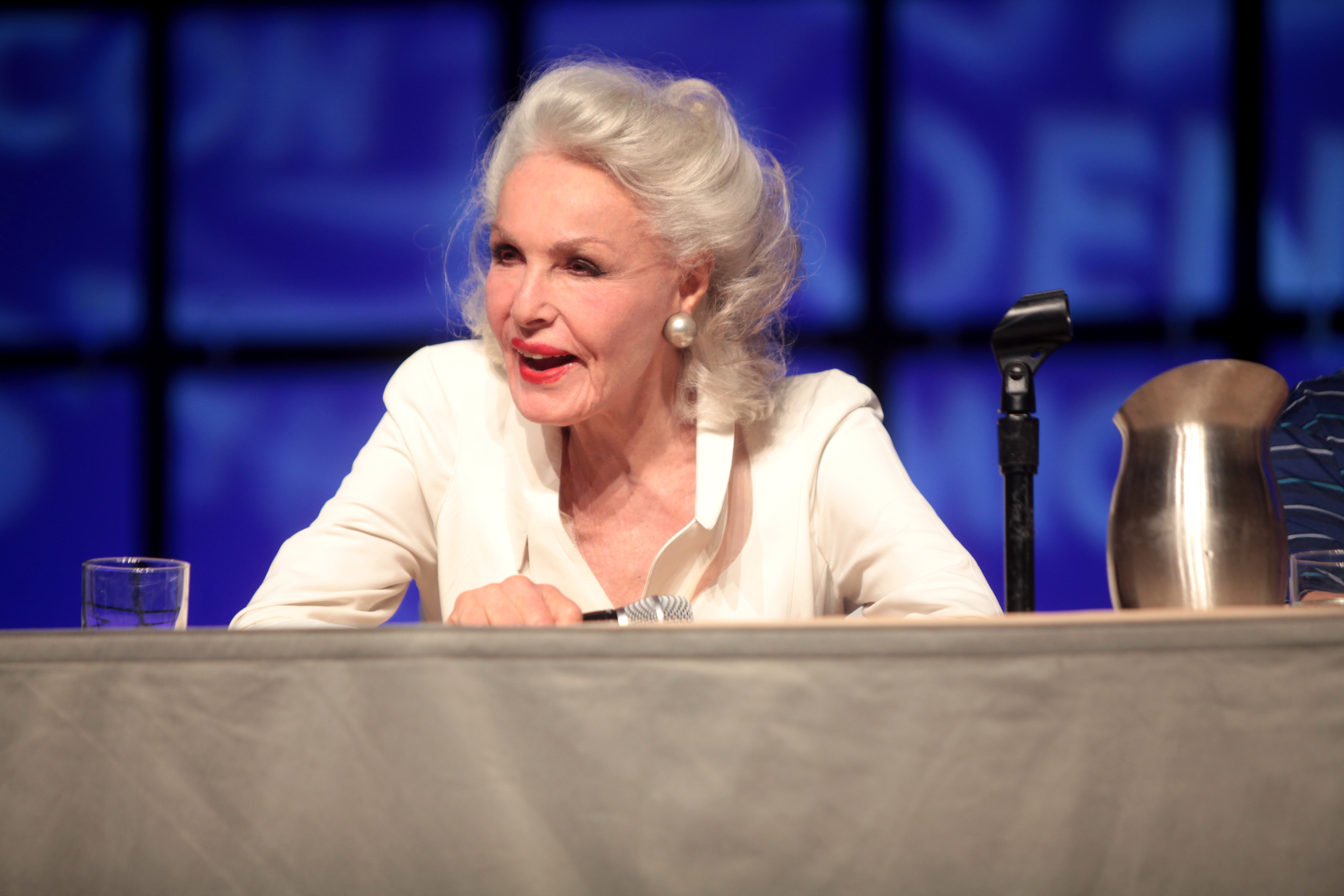 Julie Newmar at 2014 Phoenix ComicCon